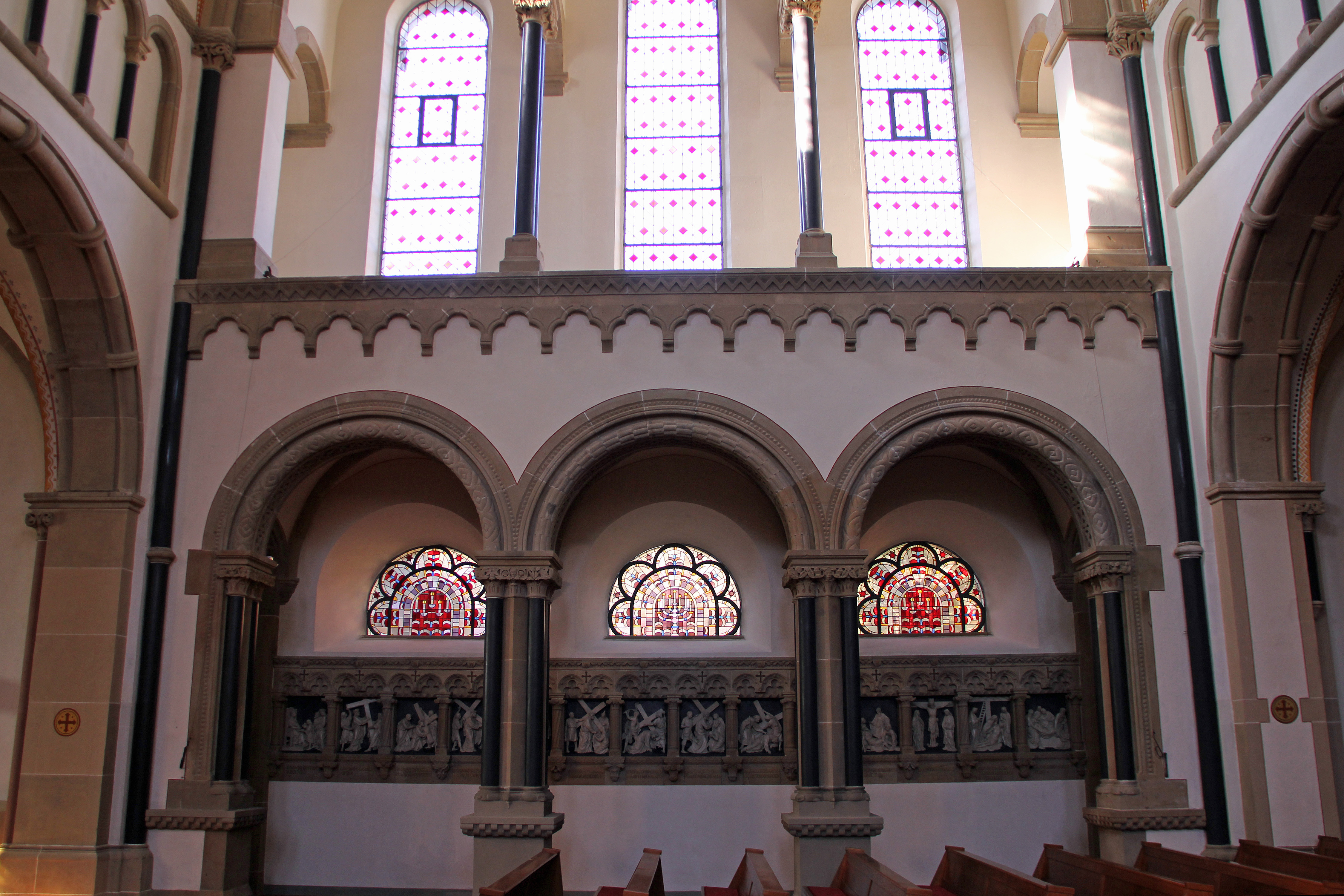 Herz-Jesu-Kirche in Koblenz